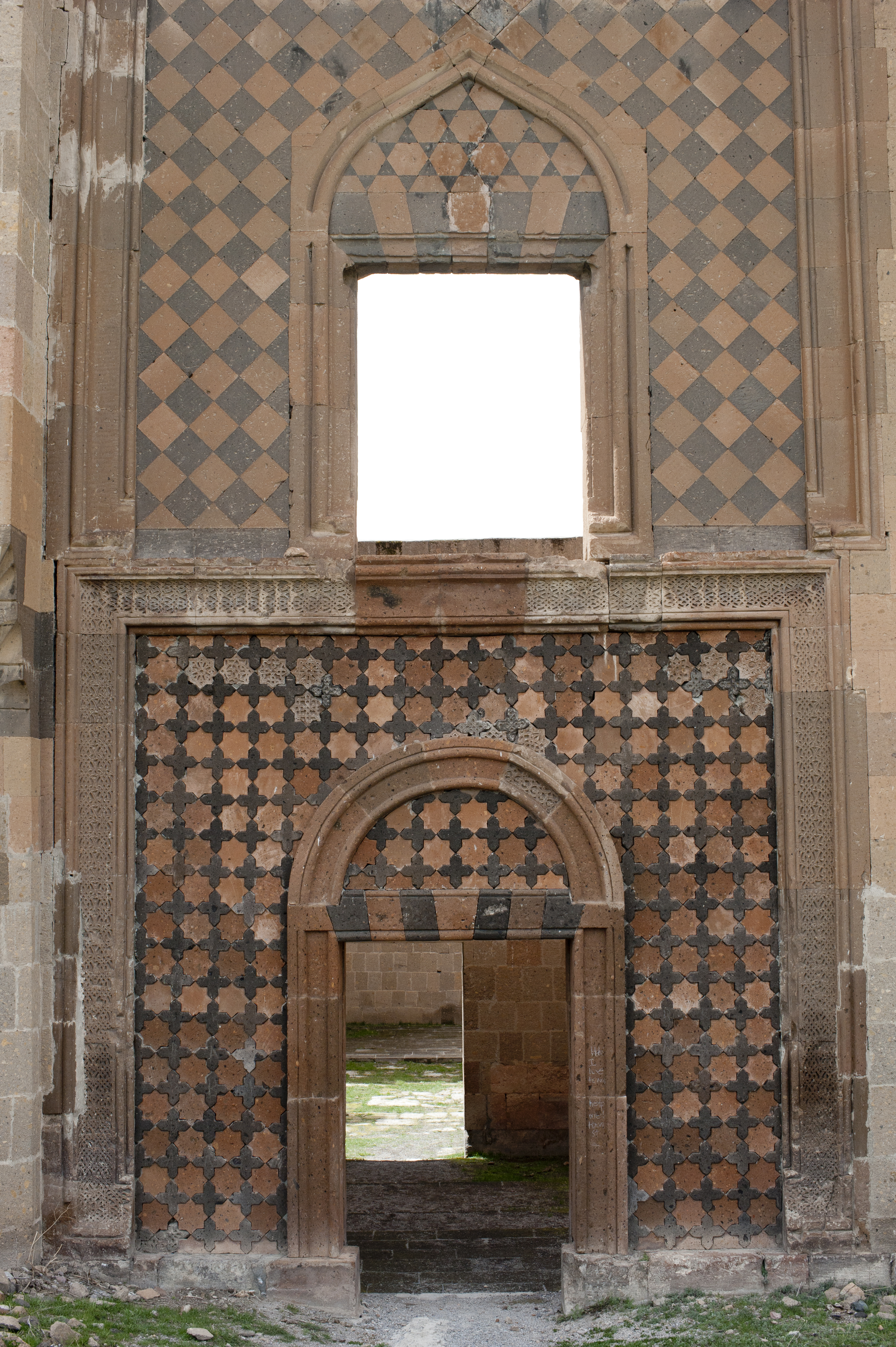 Tiled walls of Palace, Ani, Turkey.